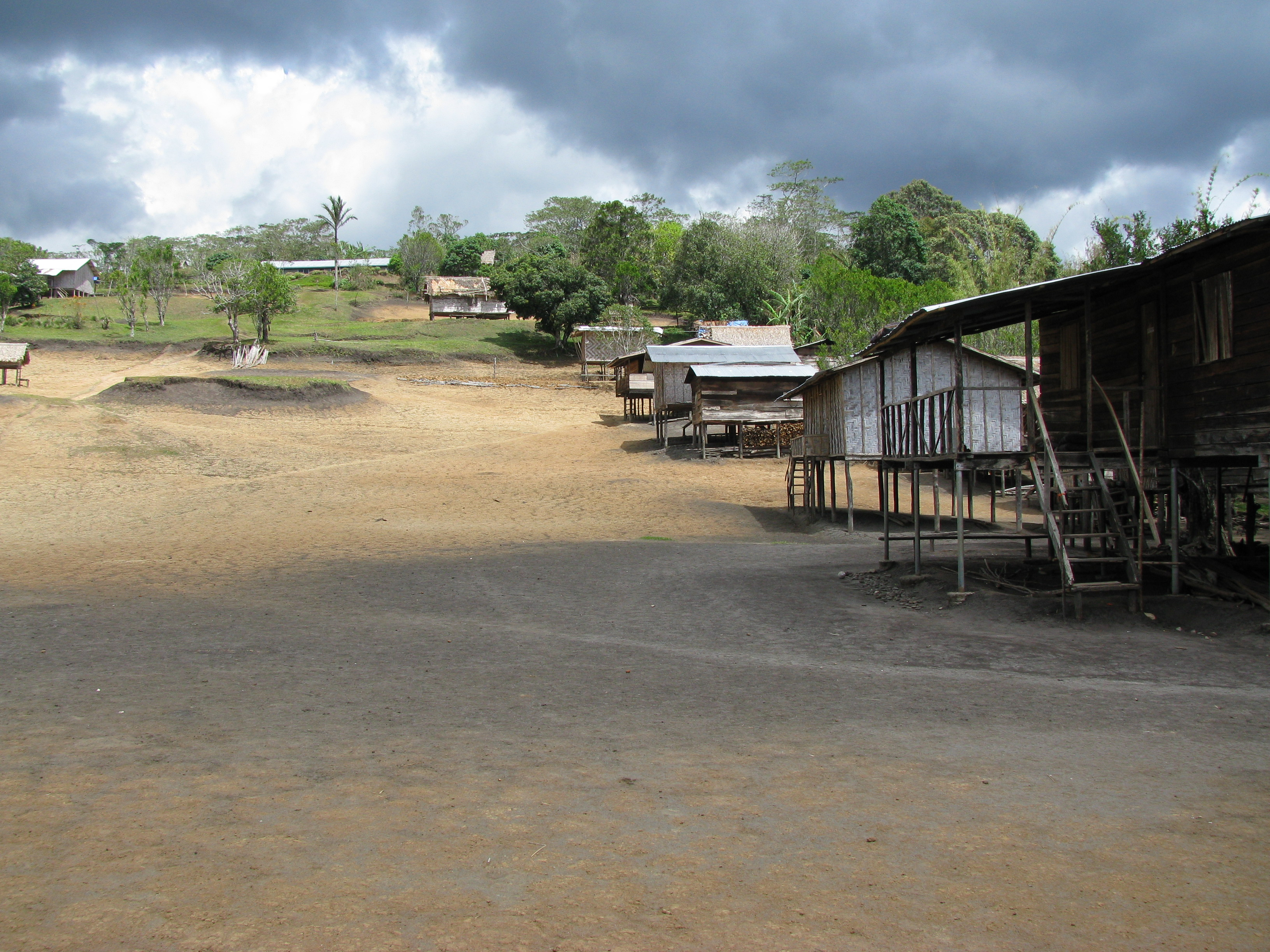 Naduri Village, on the Kokoda Track, Papua New Guinea.